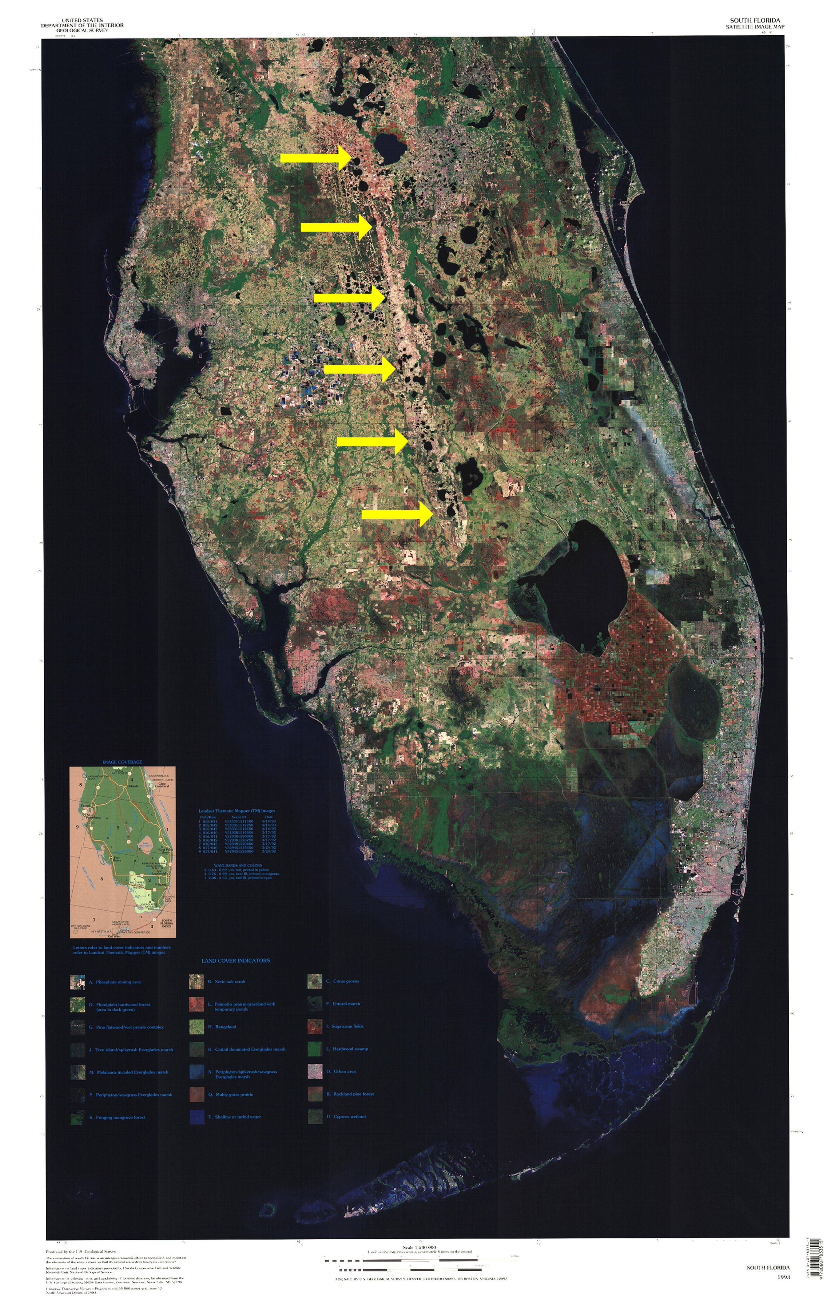 Satellite image of the Florida peninsula with yellow arrows indicating the position of the Lake Wales Ridge.